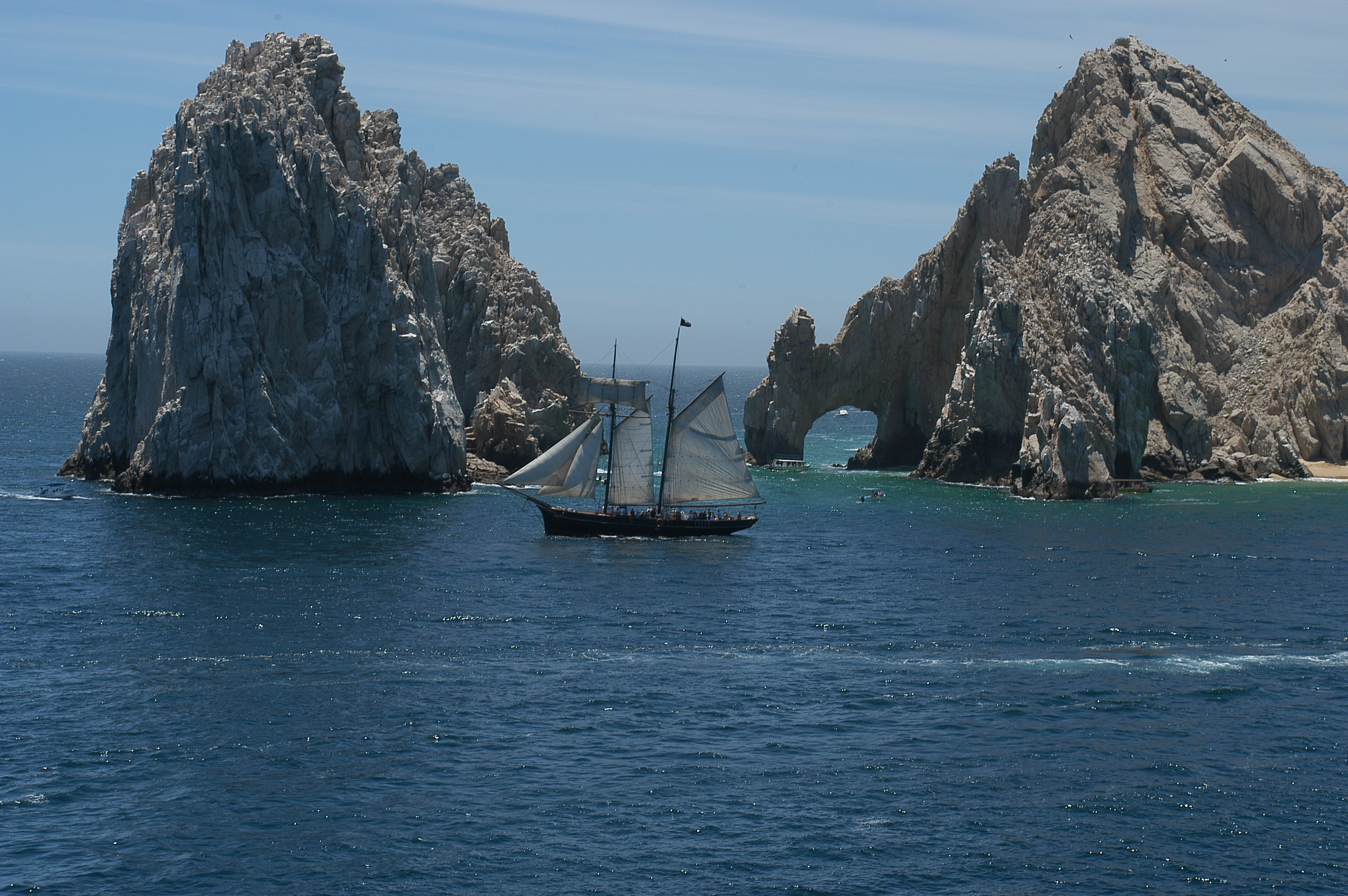 Clipper Ship at Los Arcos, Cabo San Lucas. Photo taken from a rear balcony on the Carnival Pride during a 7 day Mexican Riviera Cruise. This was an unscheduled stop at Cabo San Lucas to drop off an ailing passenger. We were scheduled to go to Cabo later in the week. This shot is a clipper ship on a tourist cruise to view Los Arcos, a dramatic coastal formation at the end of Baja California, the longest peninsula in the world.